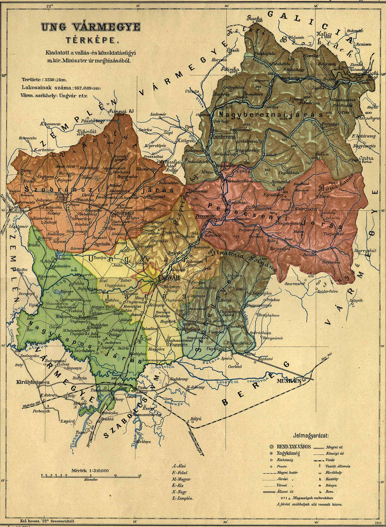 Administrative map of the county of Ung in the Kingdom of Hungary